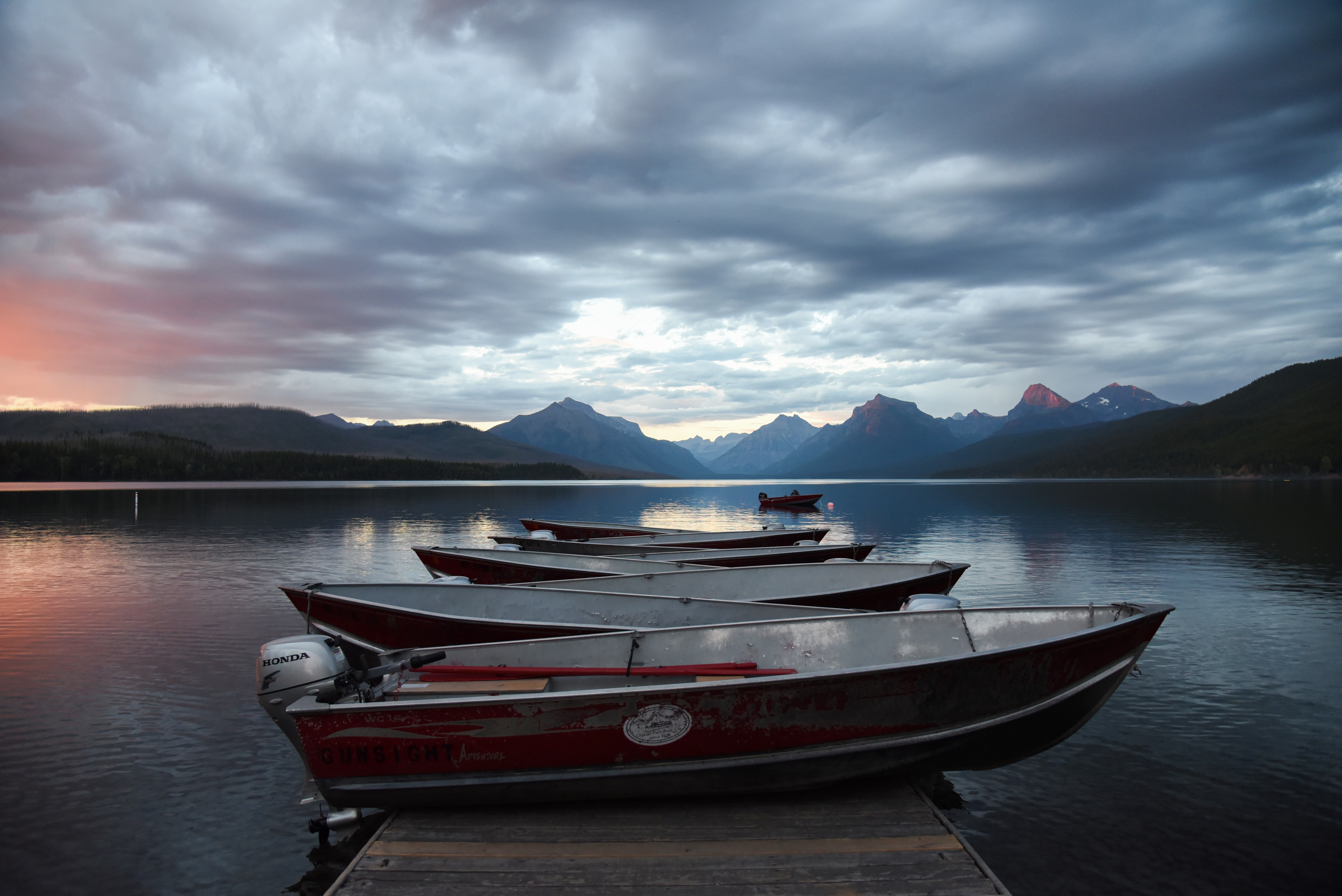 Lake McDonald Lake, Glacier National Park